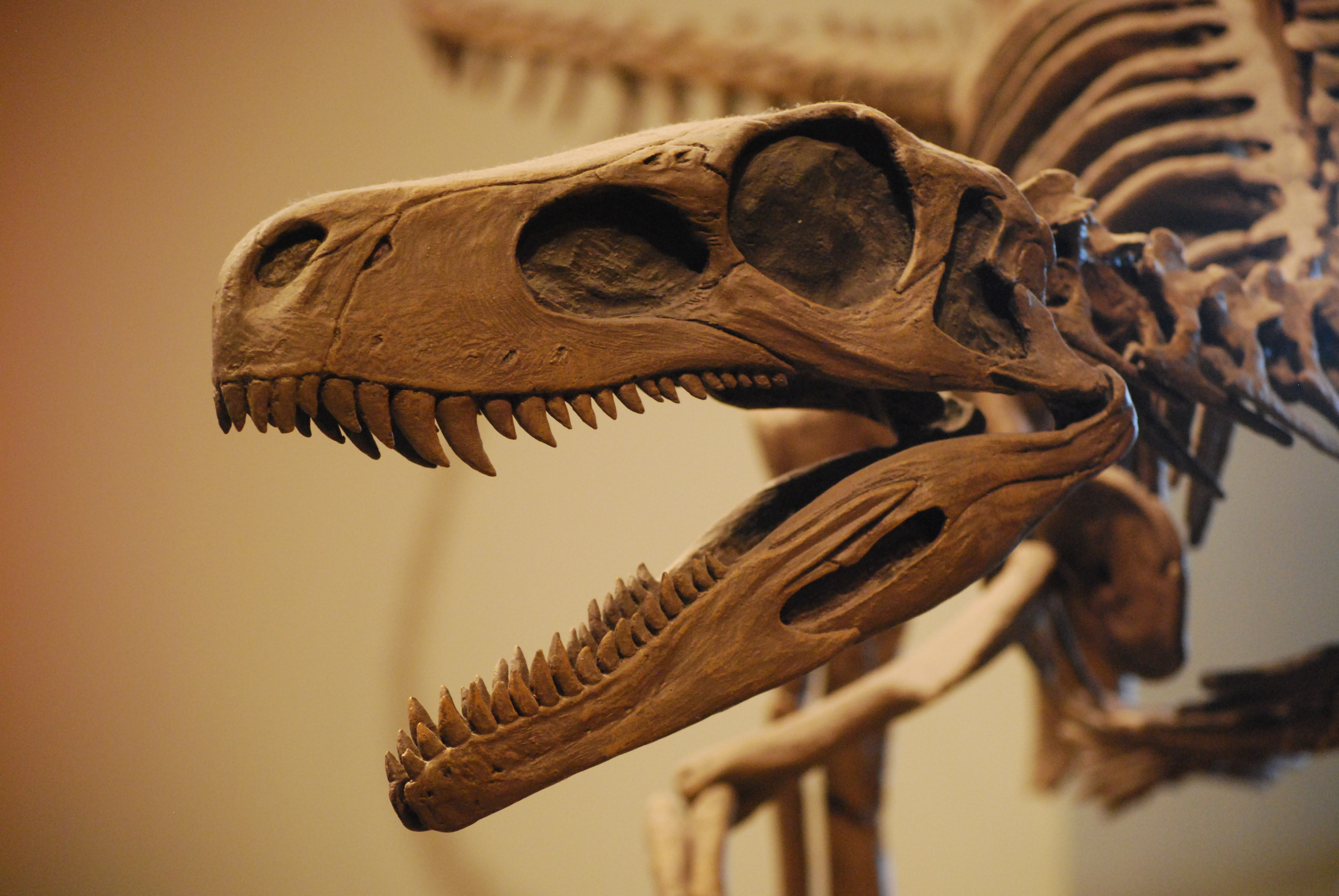 Headshot of the Herrerasaurus skull at the Field Museum of Natural History, Chicago, IL